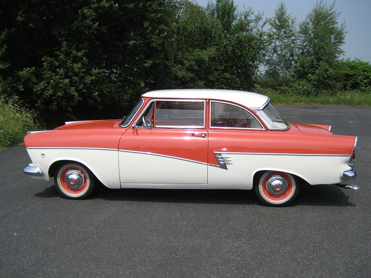 FORD Taunus 17M P2(TL) deLuxe Two door 1958